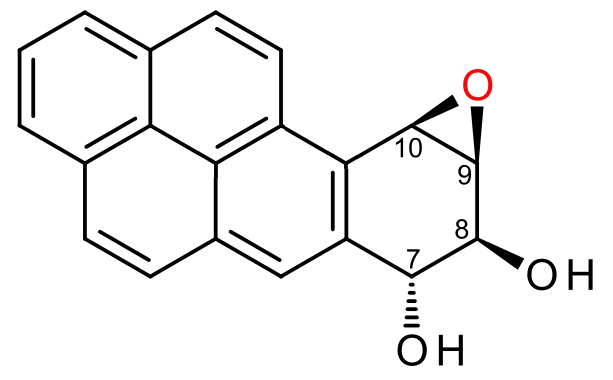 Chemical structure of (+)-benzo[a]pyrene-7,8-dihydrodiol-9,10-epoxide, the metabolised form of the tobacco smoke carcinogen benzo[a]pyrene which binds to DNA